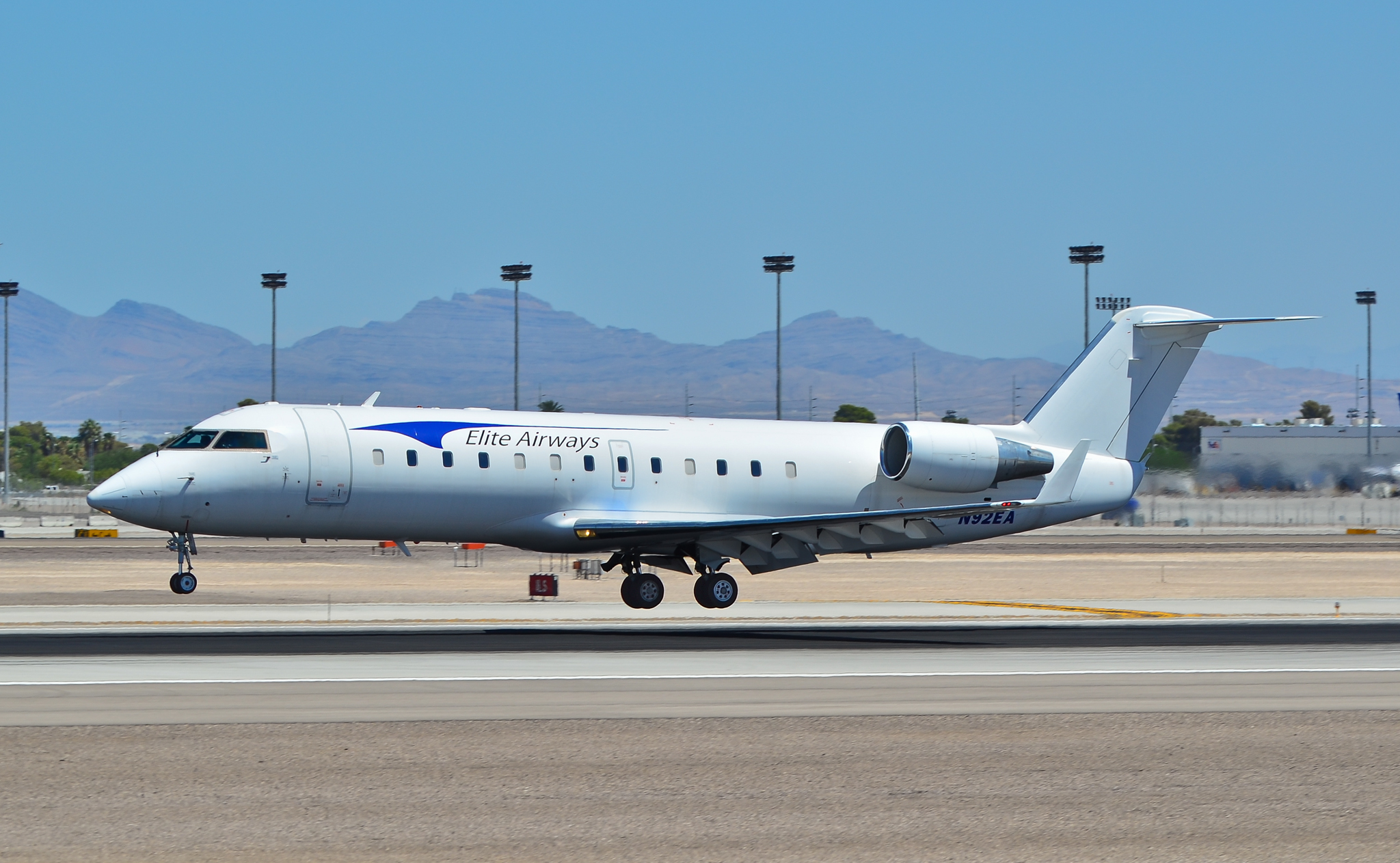 Las Vegas - McCarran International Airport (LAS / KLAS) USA - Nevada August 8, 2014 Photo: Tomás Del Coro